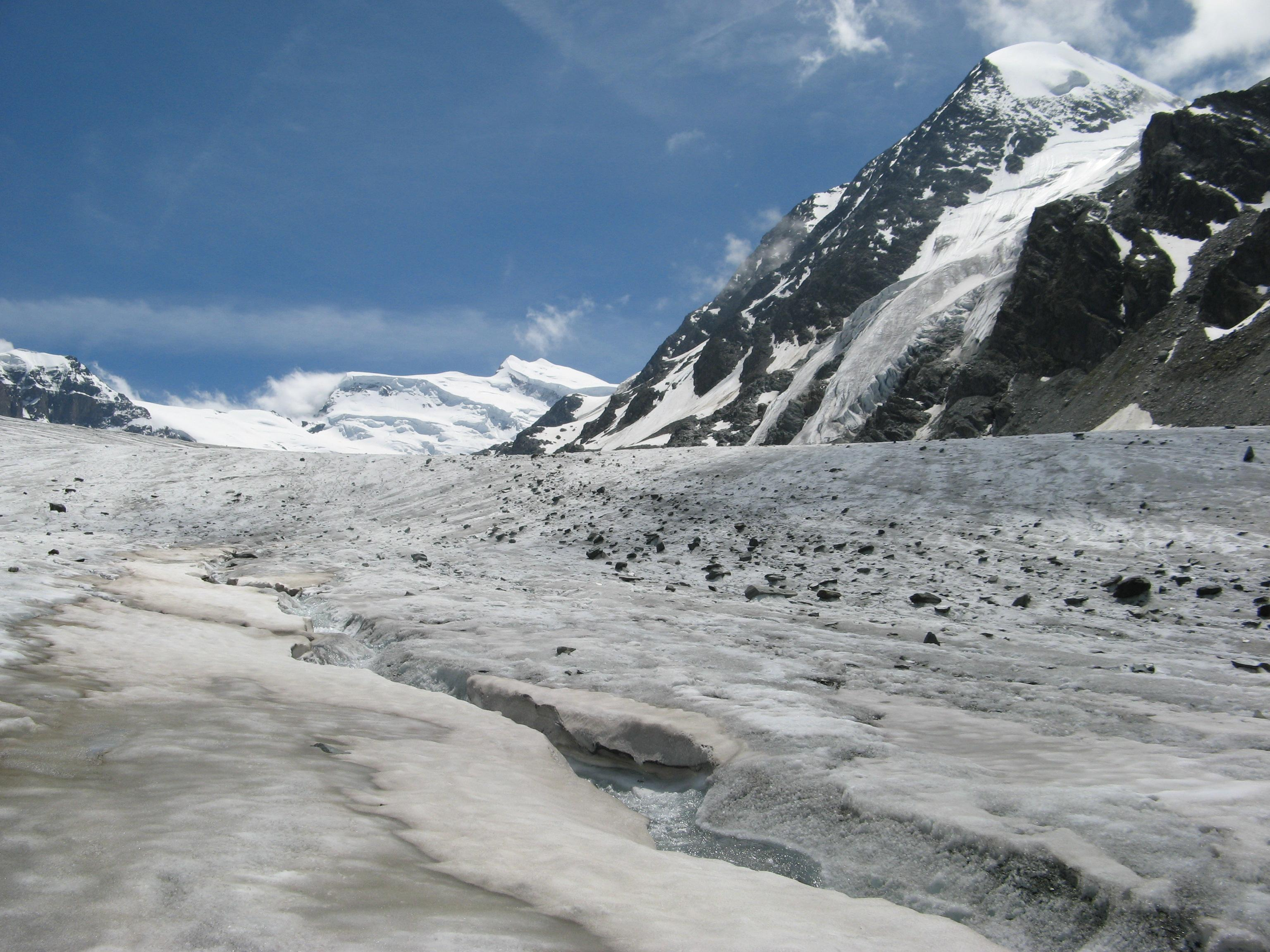 Corbassière Glacier, Pennine Alps, in the background Grand Combin, at the right side: Petit Combin (3663m)